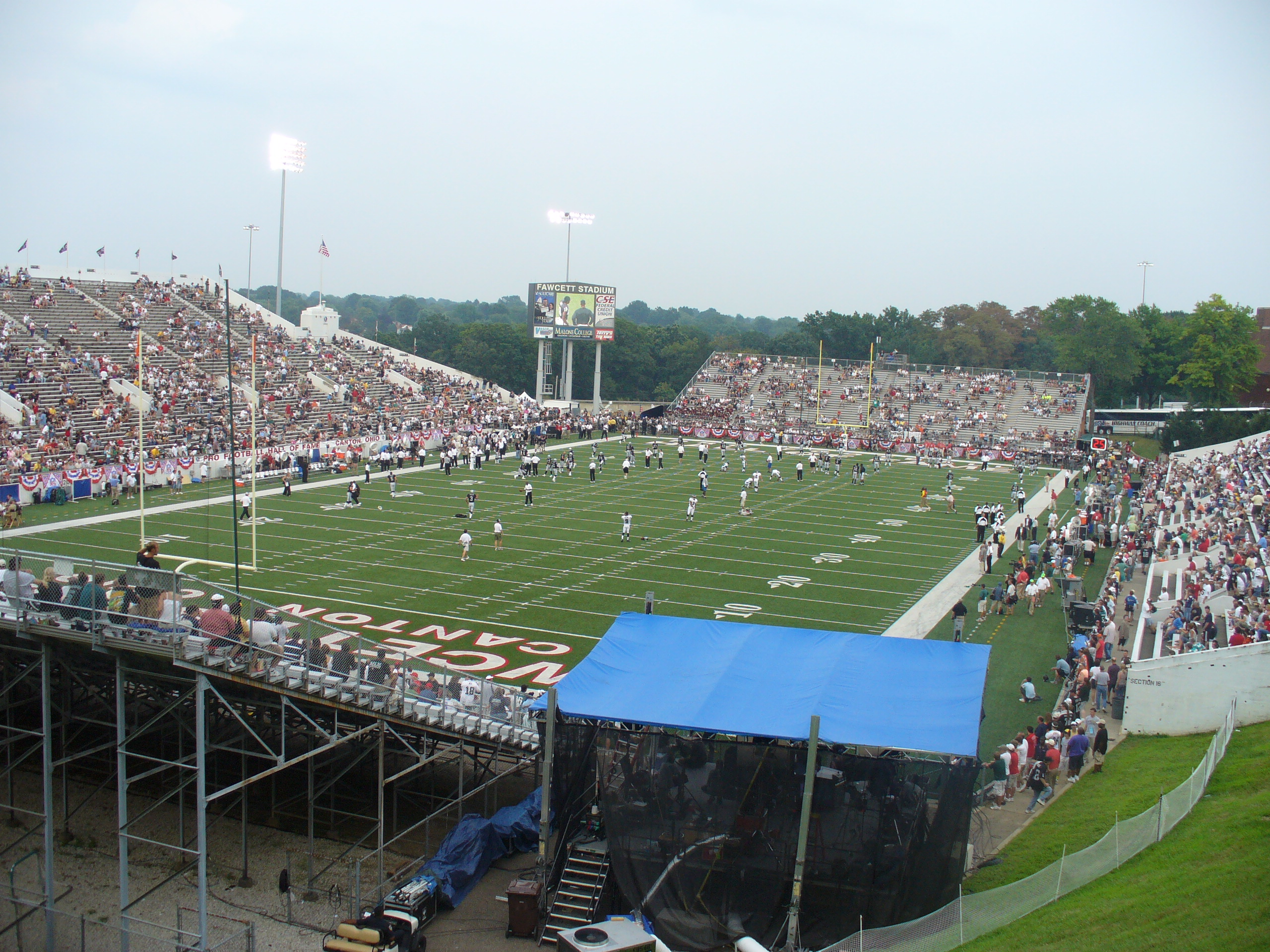 I took this picture myself before the start of the 2006 Pro Football Hall of Fame Game.